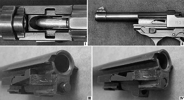 Detail view of the Walther P38's short- recoil Lock.